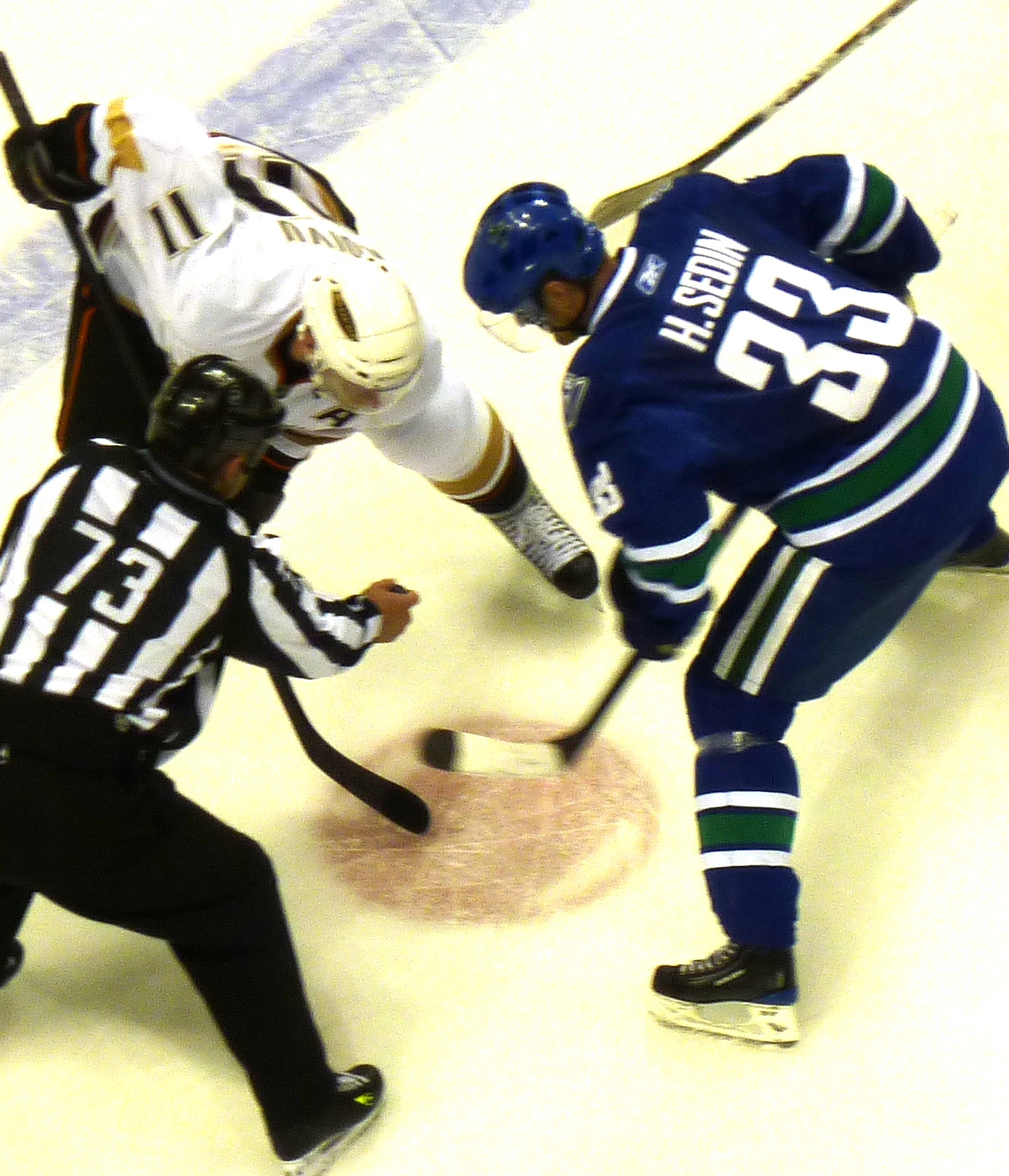 Centres Saku Koivu of the Anaheim Ducks and Ryan Kesler of the Vancouver Canucks faceoff during a game on December 16, 2009.